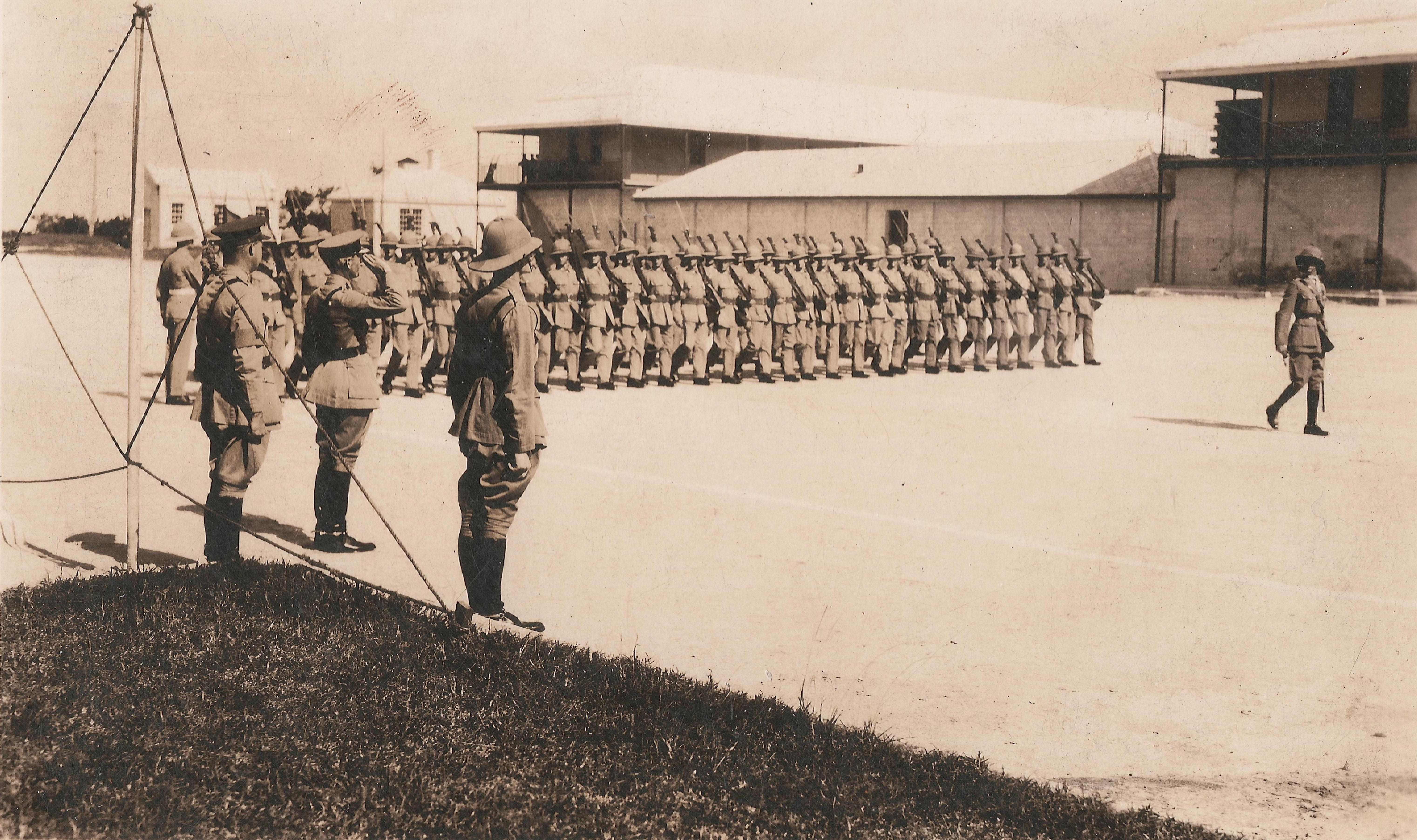 Governor and Commander-in-Chief Lieutenant-General Sir Louis Jean Bols, KCB, KCMG, DSO (1867-1930), taking the salute at Prospect Camp in 1930. The infantry unit stationed at Prospect Camp from 1929 to 1931 was a Wing of the 1st Battalion, West Yorkshire Regiment (Prince of Wales's Own).